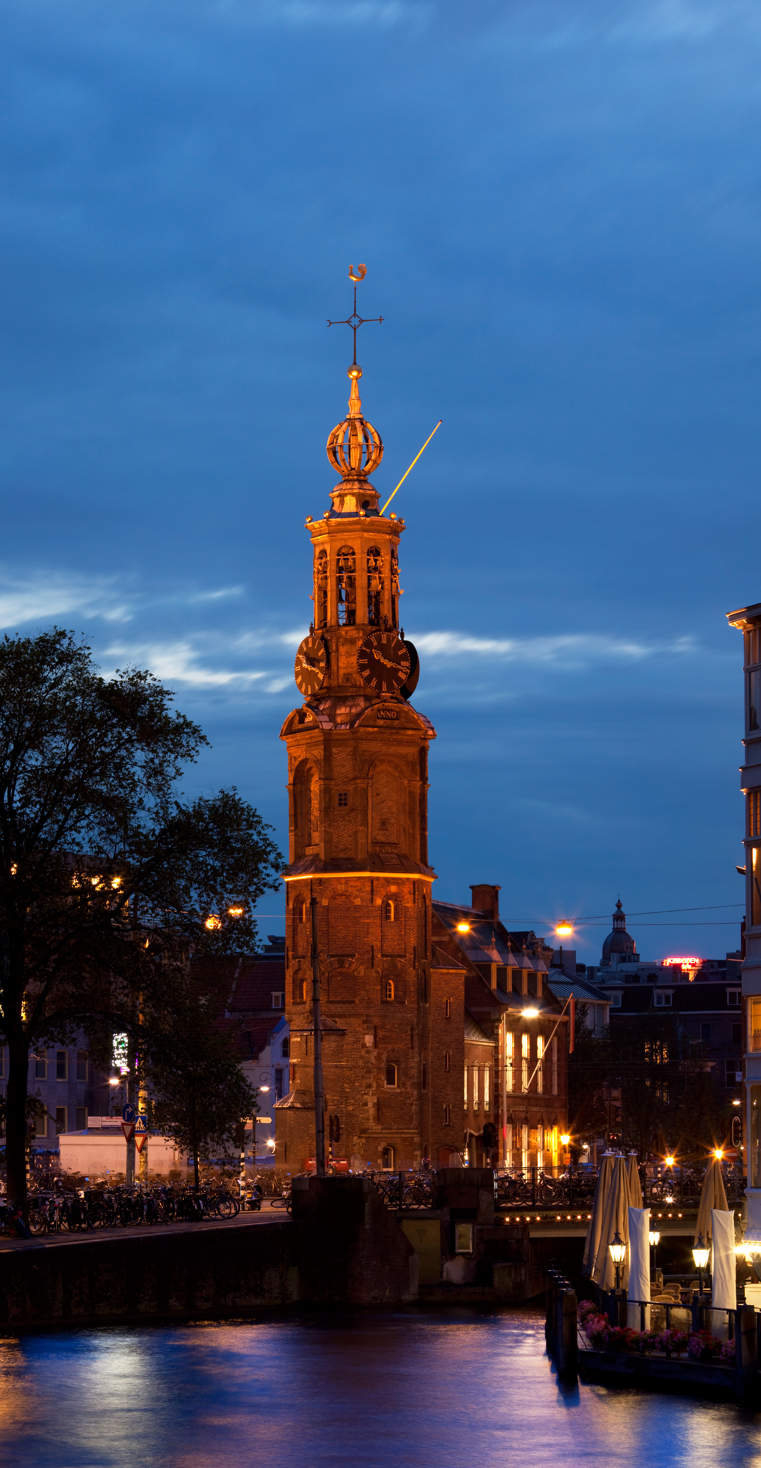 The Munttoren (Mint Tower) is a prominent landmark in Amsterdam, the Netherlands and the centerpiece of Muntplein (Mint Square). The lower half of the tower was originally part of the city's medieval fortifications.